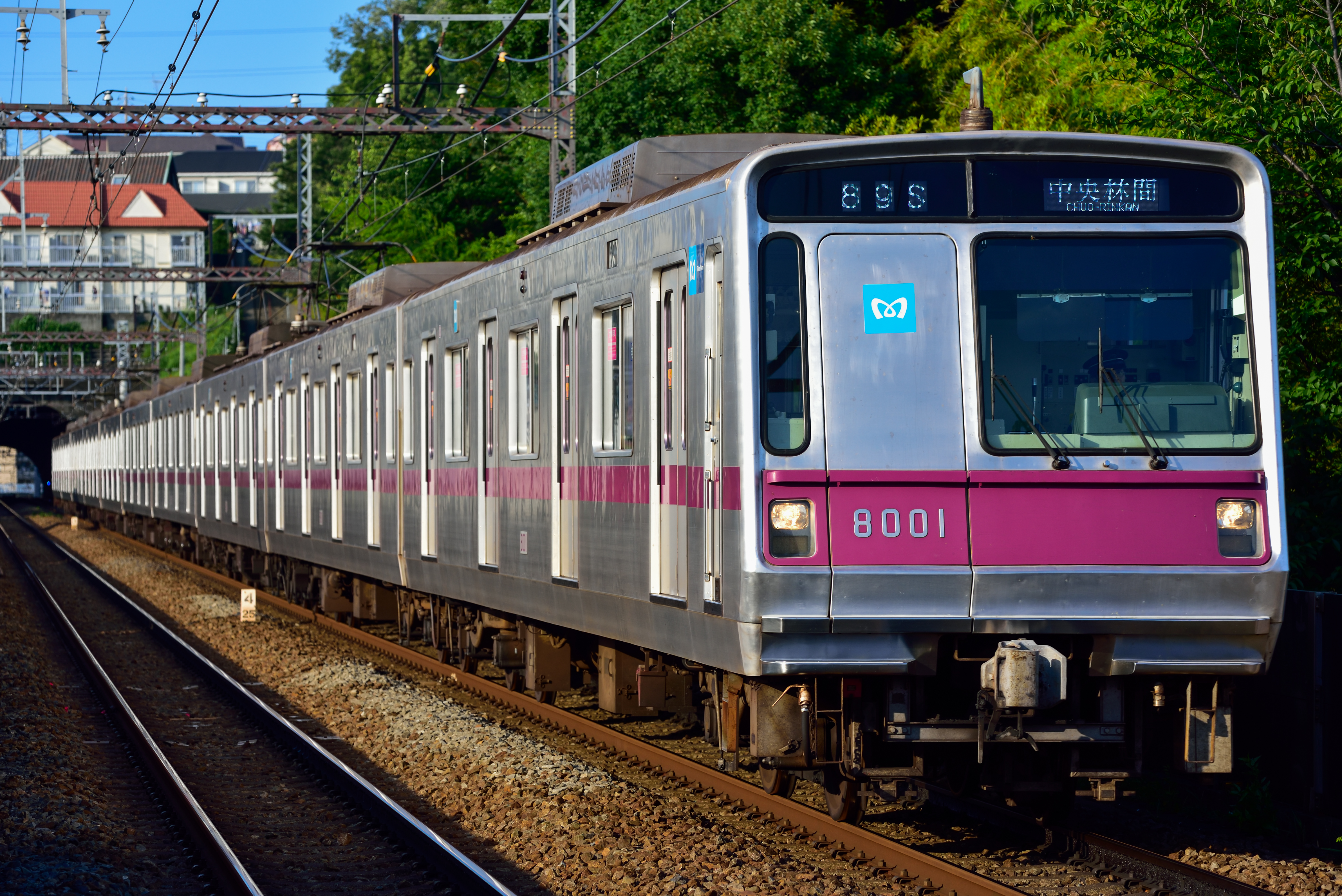 Tokyo Metro 8000 series EMU set 8101 approaching Tana Station on the Tokyu Denentoshi Line in Tokyo